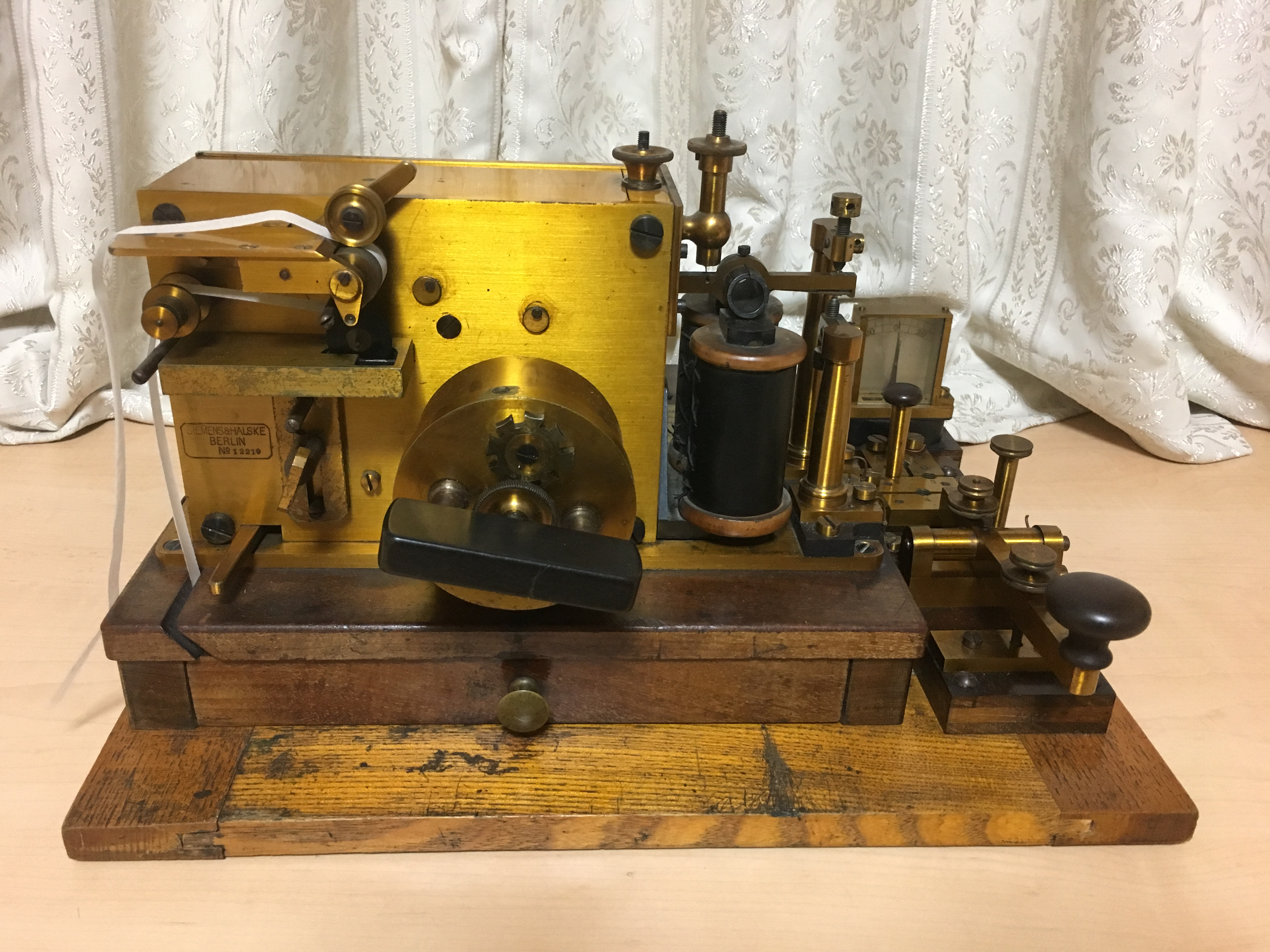 Siemens & Halske Morse telegraph